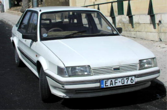 Austin Montego